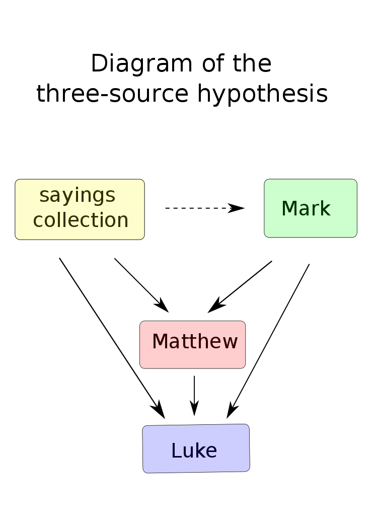 Data flow diagram of the Three-Source Theory for the Synoptic Problem